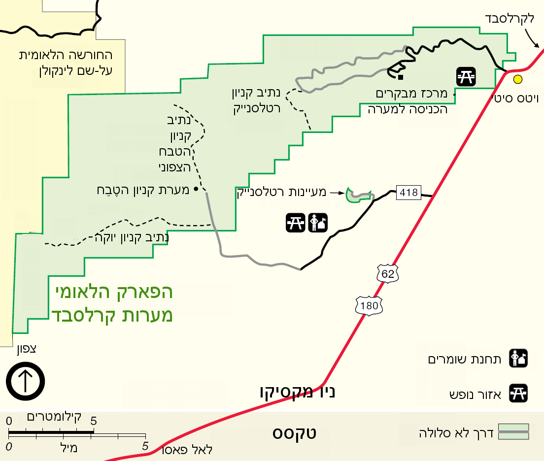 Map of Carlsbad Caverns National Park